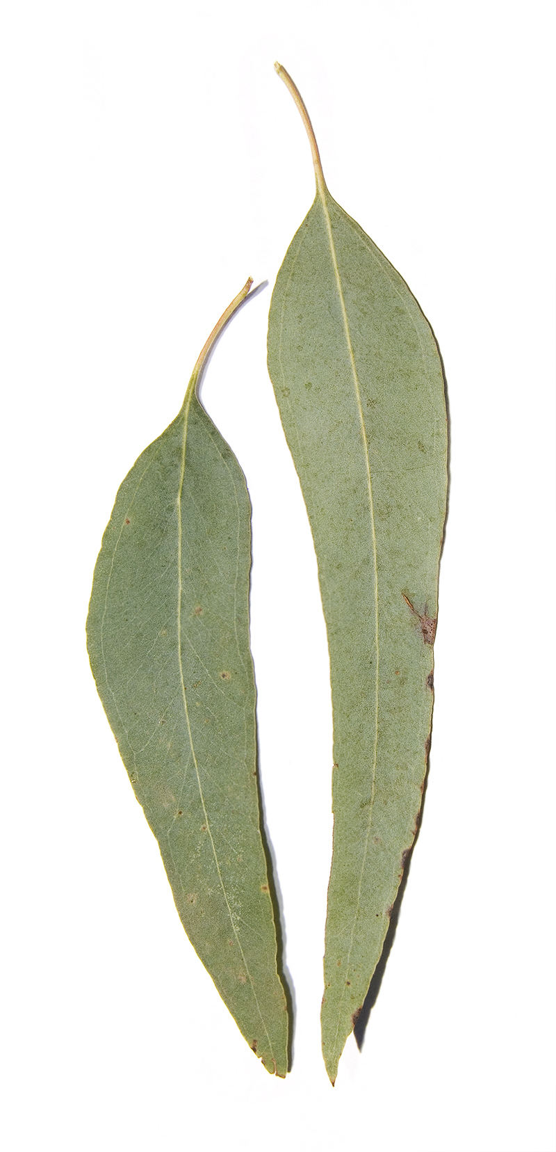 Eucalyptus melliodora, commonly known as Yellow Box, is a medium sized to occasionally tall eucalypt